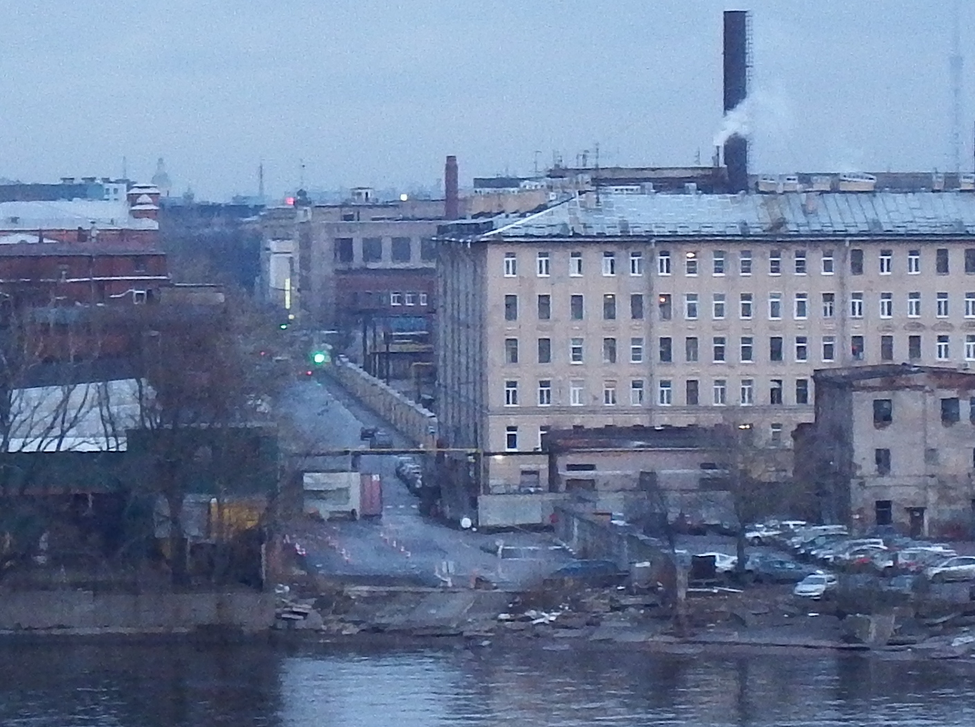 Kozevaennaya ulica Vasilievsky Island St. Petersburg Russia view from Neva river